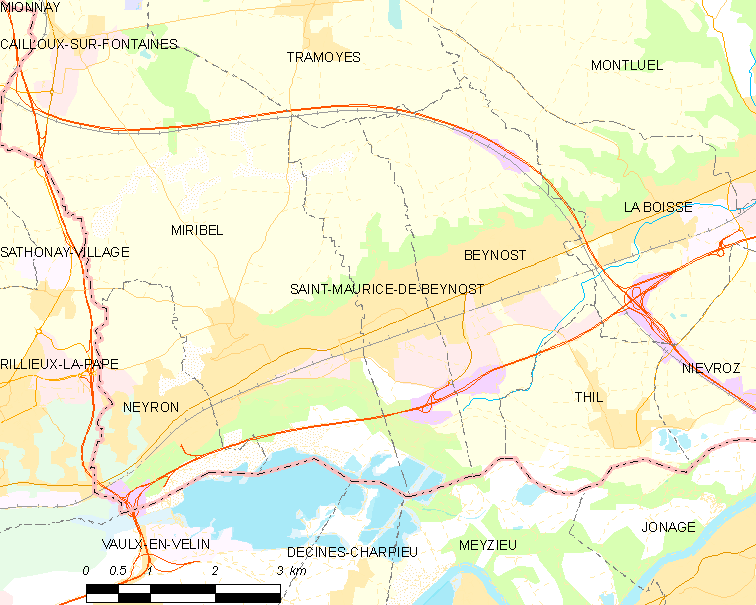 Map of French commune: Saint-Maurice-de-Beynost Map commune FR insee code 01376.png